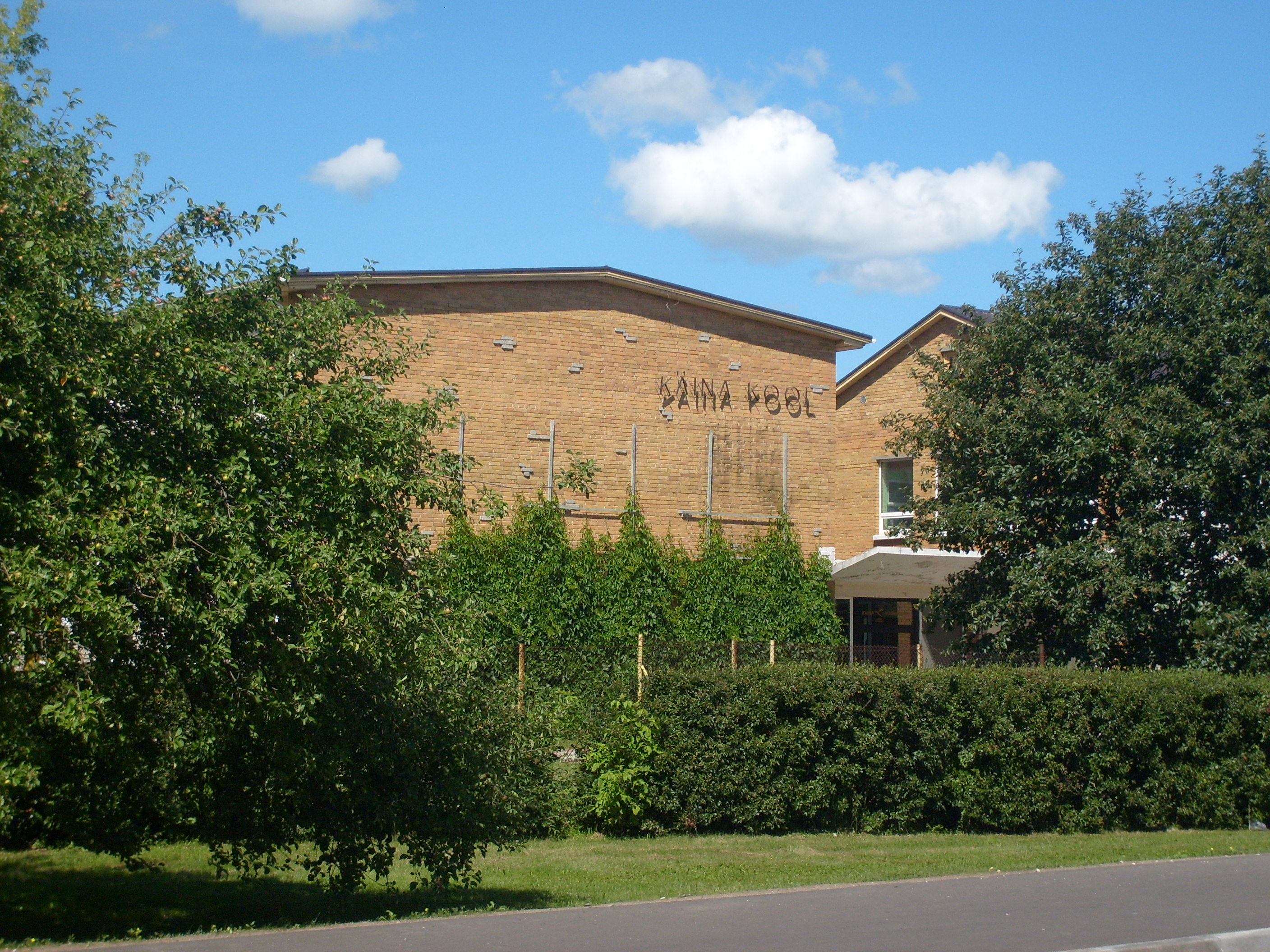 The School of Käina, Estonia